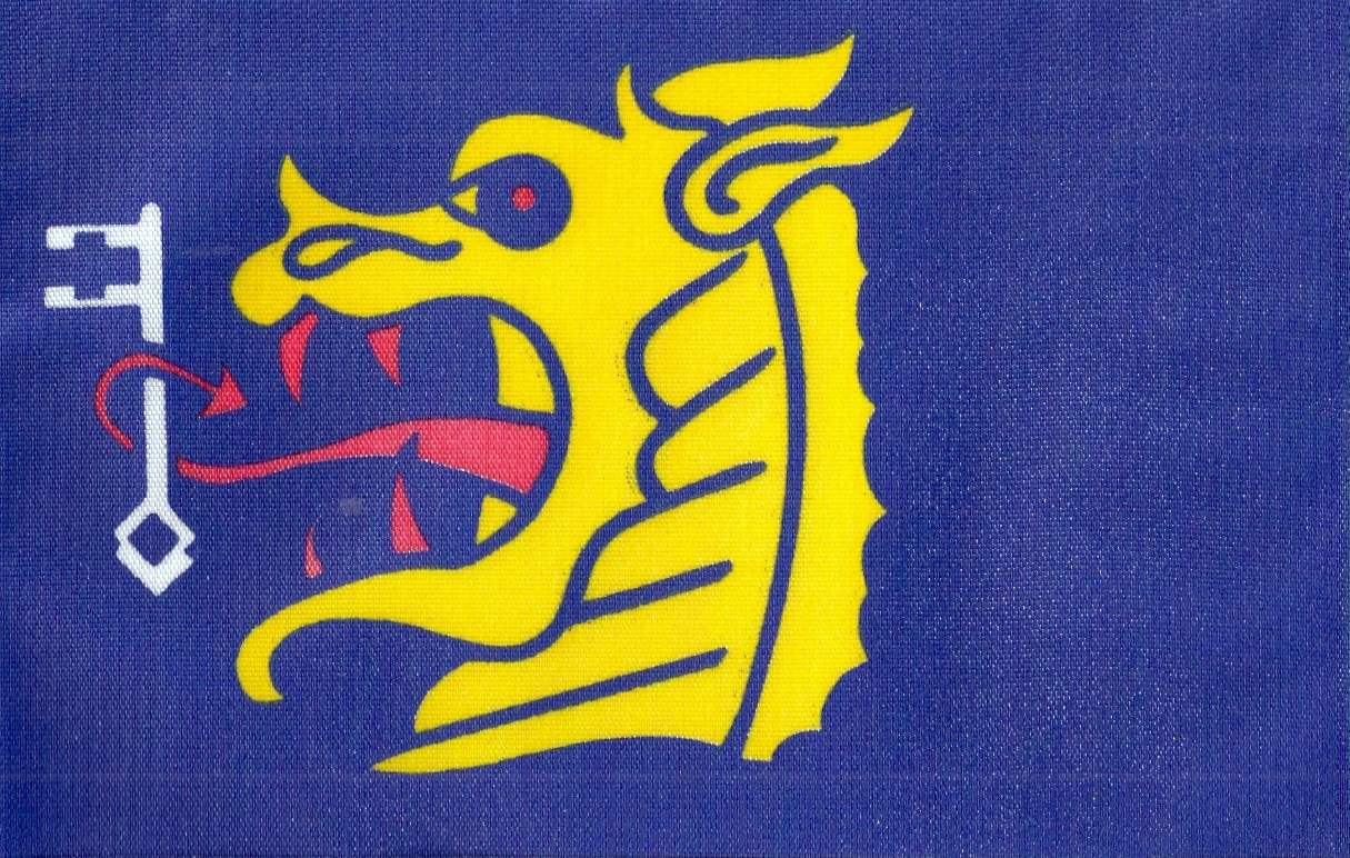 Flag of the former municipality Lieshout, the Netherlands